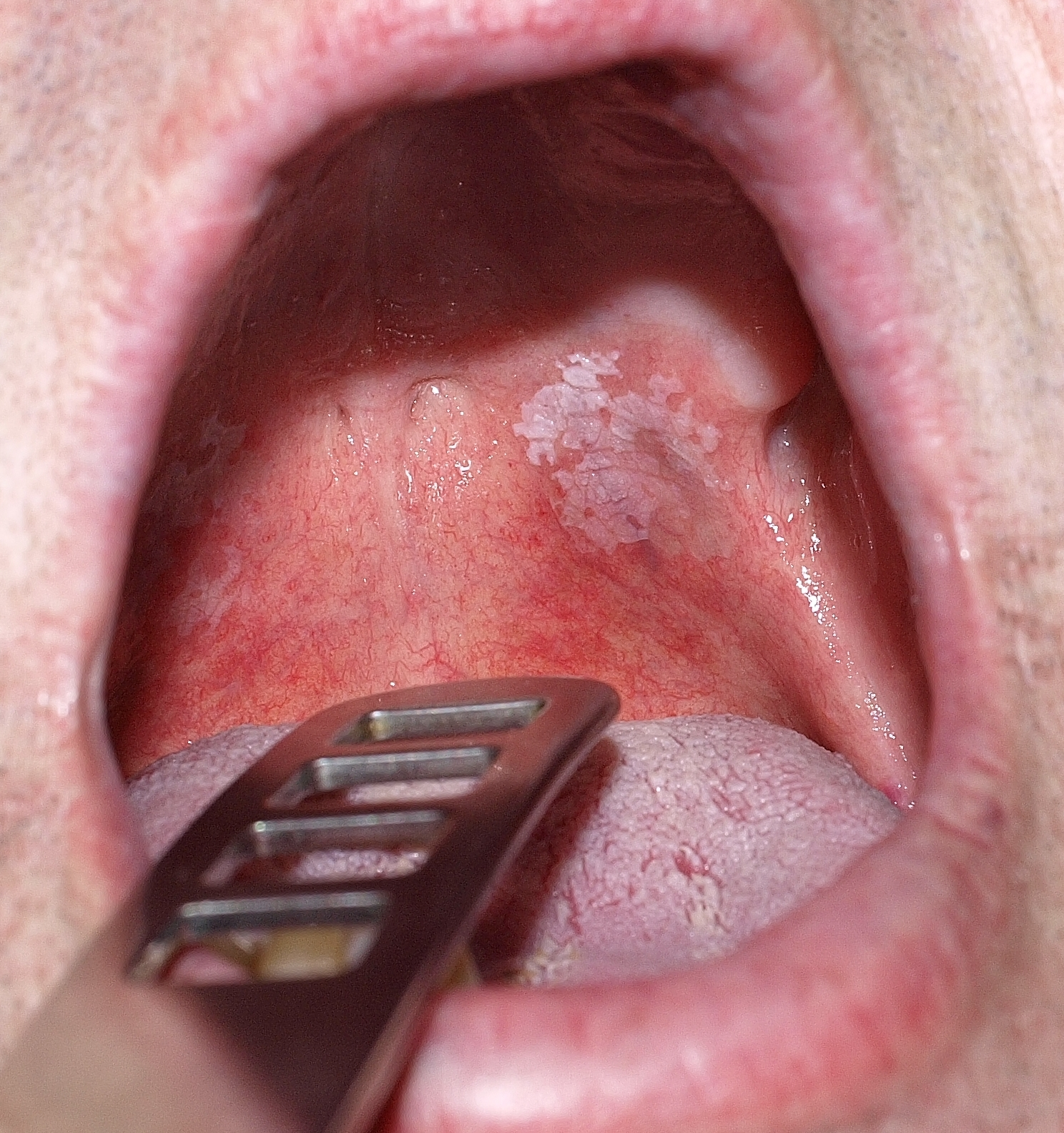 Toxic leukoplakia of the oral mucosa in 62-year-old man. Malignancy was excluded histologically.